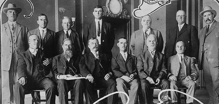 Bain News Service, publisher. Los Angeles - Talesmen in McNamara Case 1 negative : glass ; 5 x 7 in. or smaller. Notes: Title from unverified data provided by the Bain News Service on the negatives or caption cards. Forms part of: George Grantham Bain Collection (Library of Congress). Format: Glass negatives.